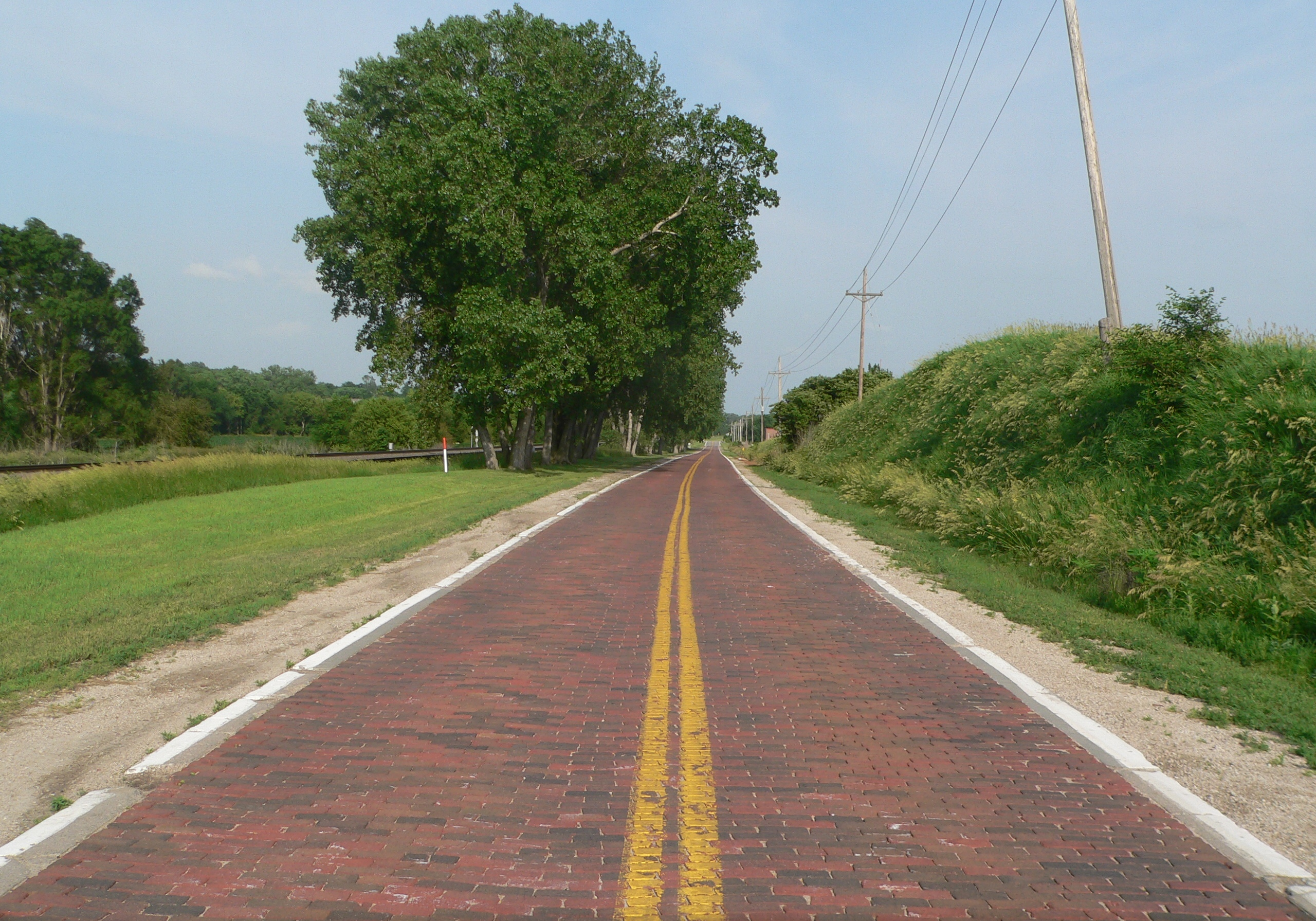 Lincoln Highway in Omaha, Nebraska: brick-paved portion near northward extension of 198th Street (which doesn't reach the old highway). Camera is facing generally eastward.